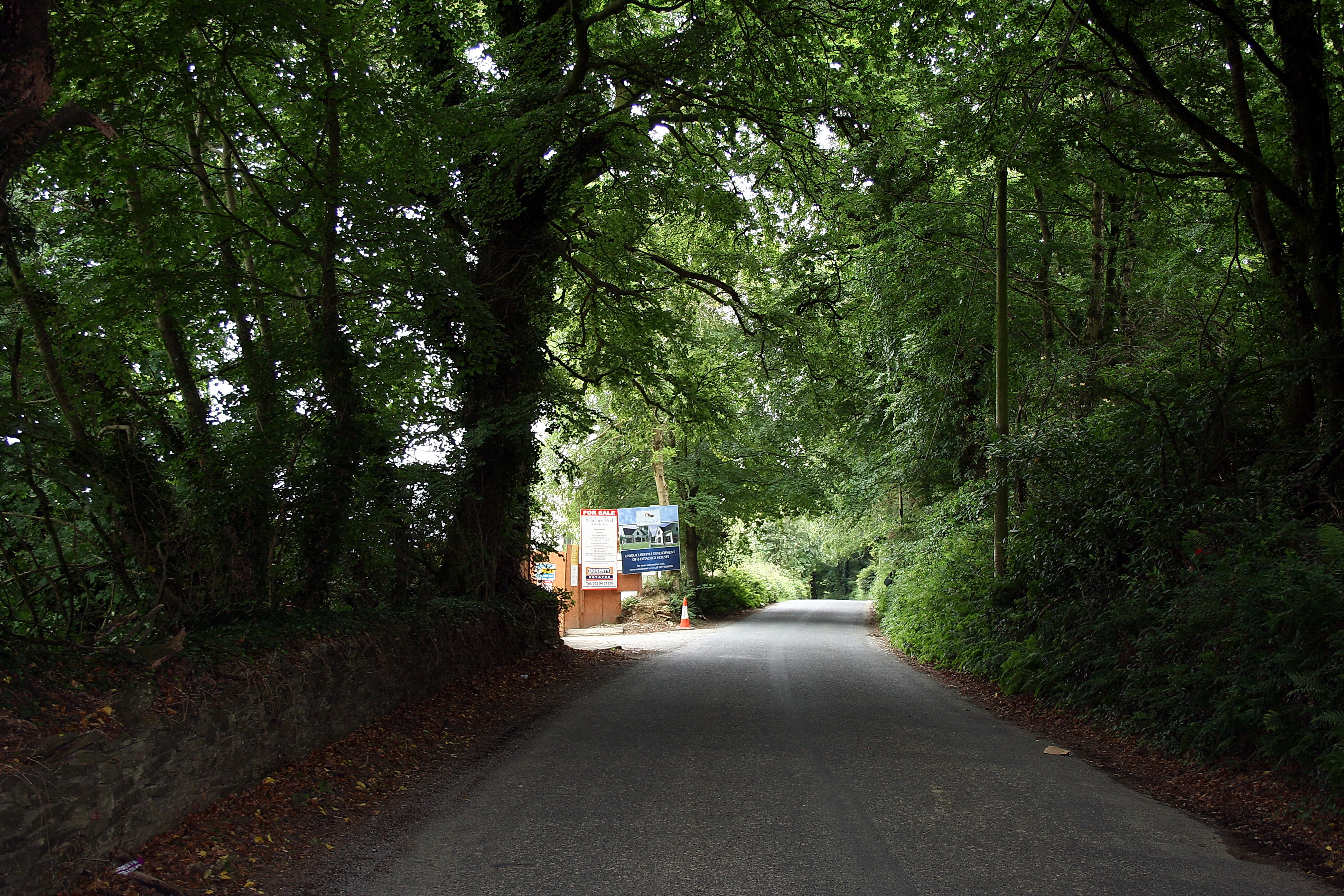 Hollyfort, County Wexford, Ireland. The road to Monaseed.